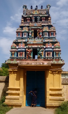 Tiruppanthuraisivananthesvarartemple திருப்பந்துறைசிவானந்தேசுவரர்கோயில்